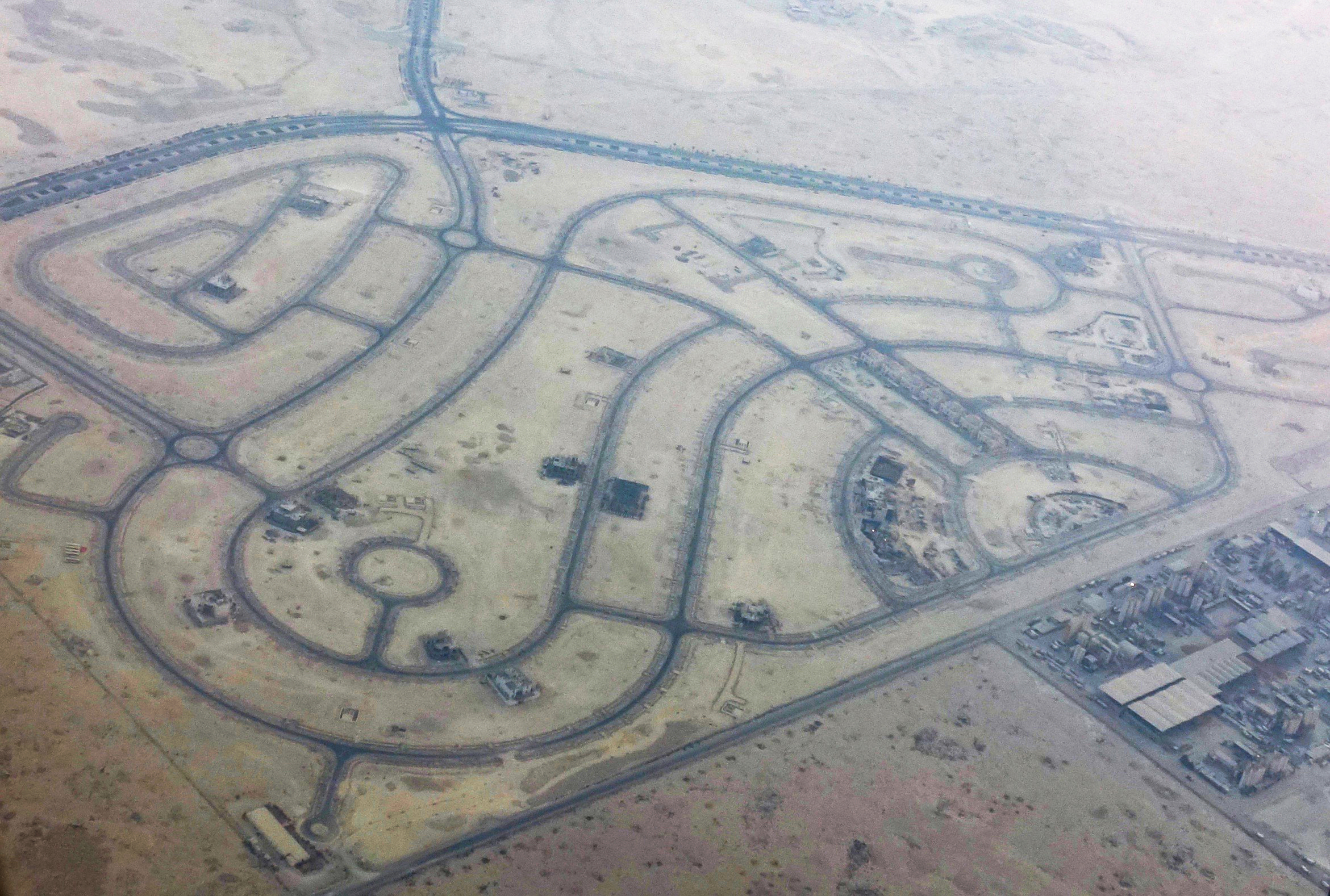 Roads in North Residential Villa, in the Waterfront District of Lusail, Qatar.